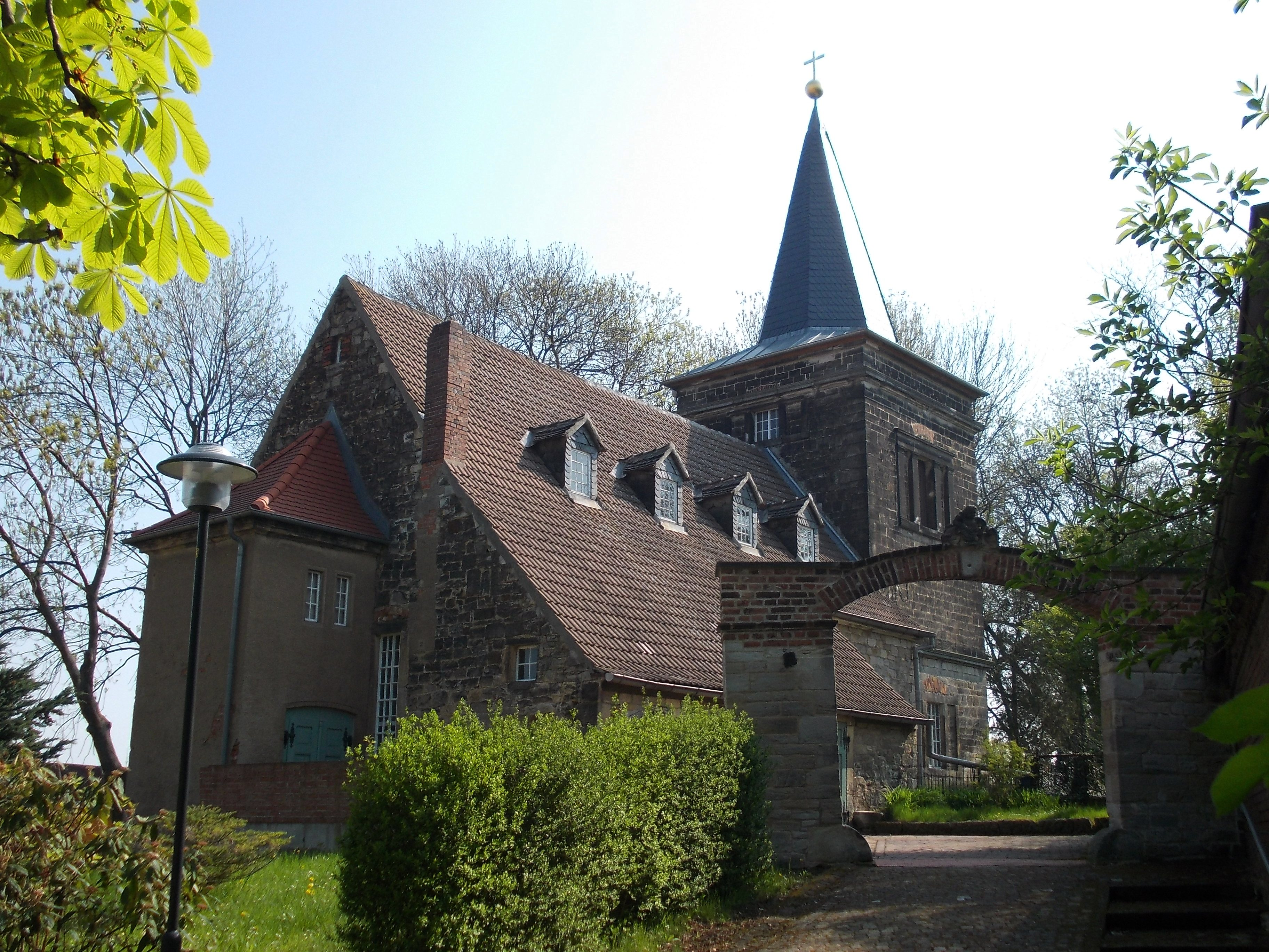 St. George's Church at Selau in Borau (Weissenfels, district: Burgenlandkreis, Saxony-Anhalt)